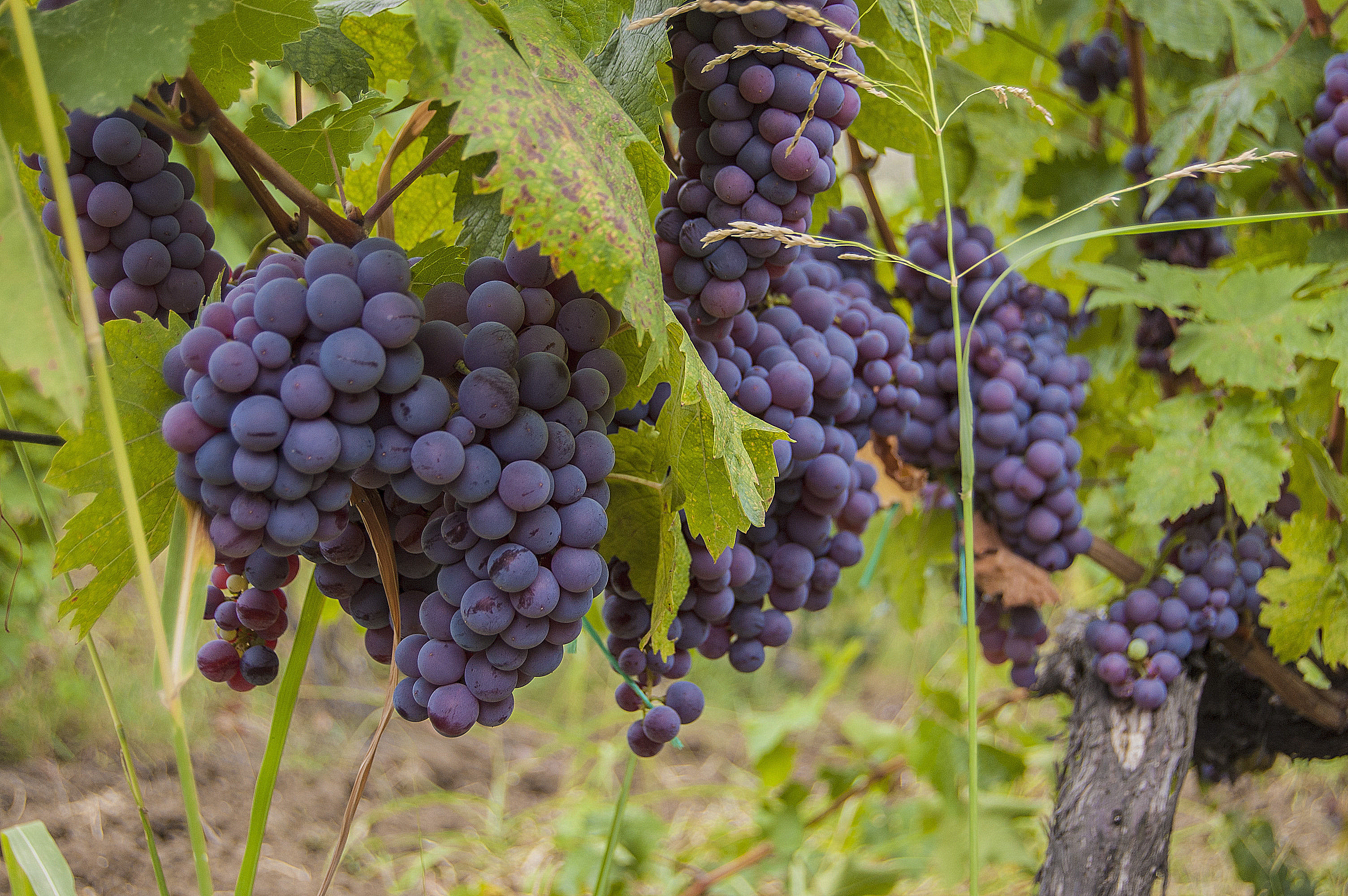 Rahovec wine ios the best in region